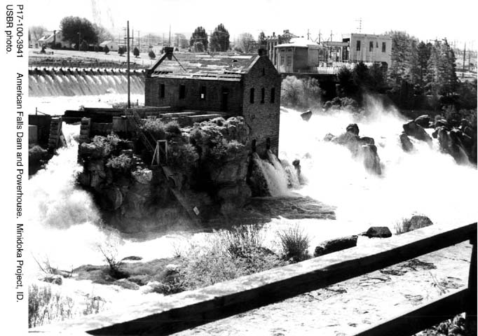 1902-built power house at American Falls (Idaho)